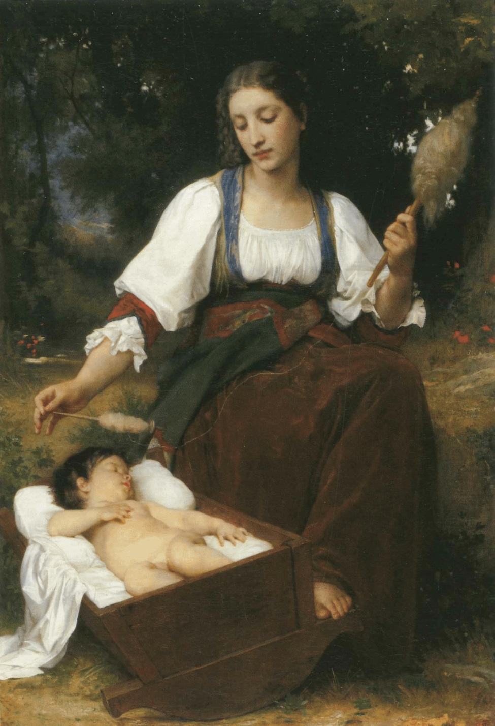 Berceuse (Italienne filant) (french for "lullaby (italian girl spinning)")